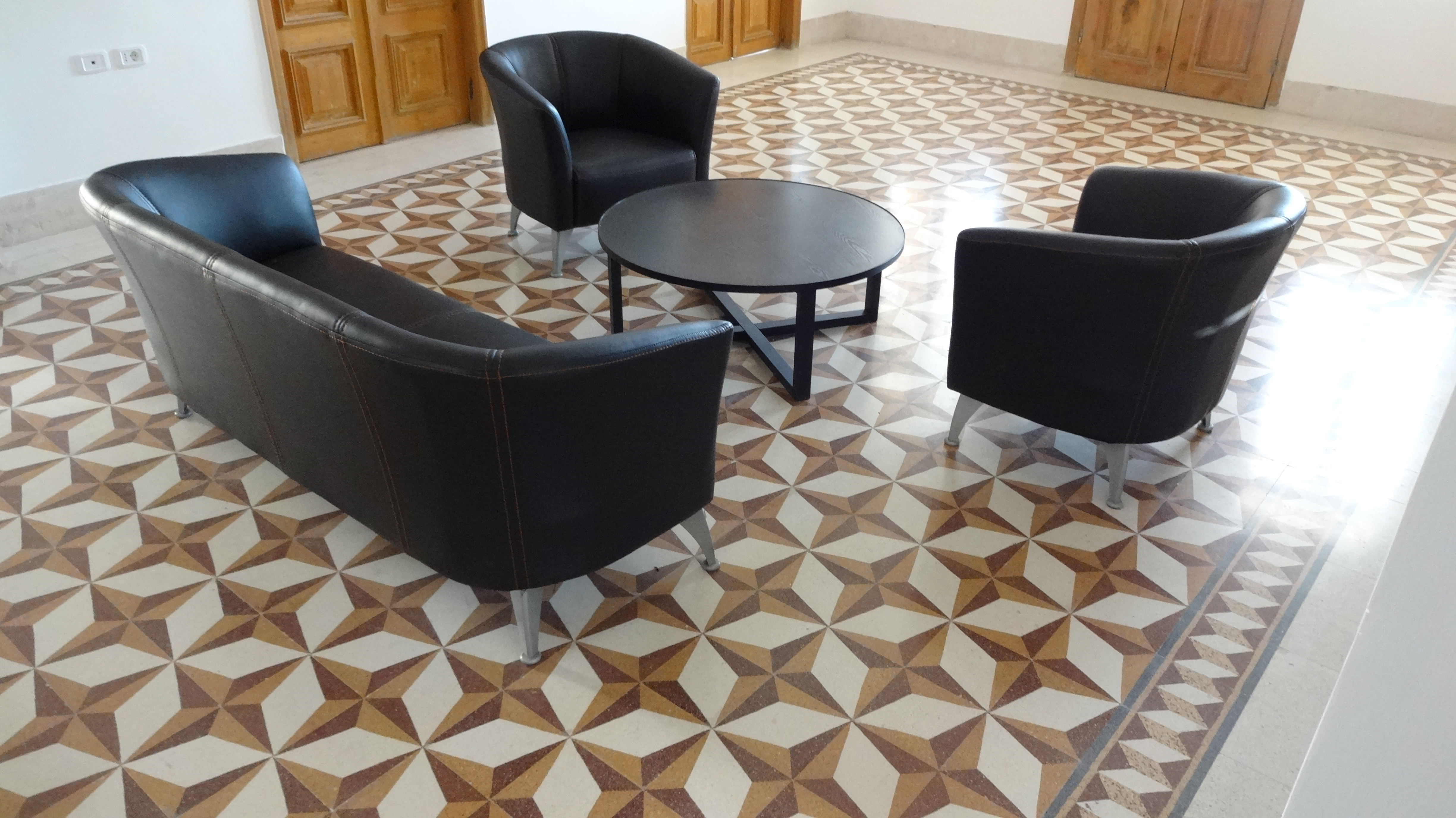 Darat al Funun is a home for the Arts and the artists of Jordan and the Arab world. Overlooking the heart of Amman, Darat al Funun is housed in three traditional buildings of the 1920s, alongside the archaeological remains of a six century Byzantine church built over a Roman Temple, all restored for use.